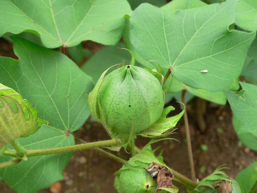 Cotton boll (Gossypium hirsutum) photographed near Kandi, Benin